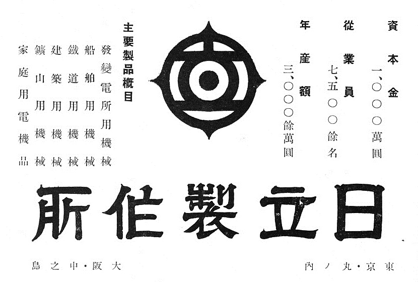 Advertisement of Hitachi, Ltd in 1930s